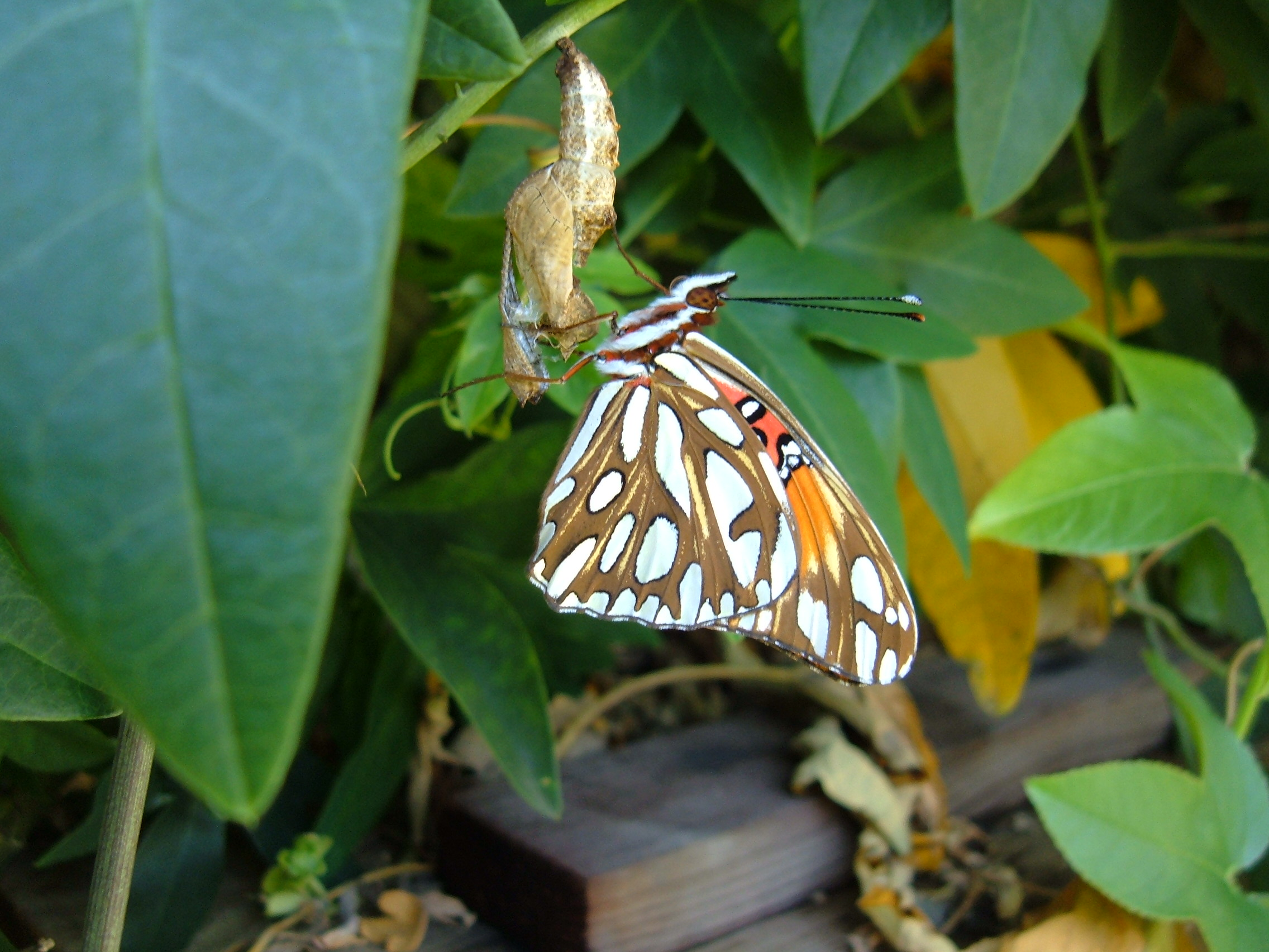 Gulf Fritillary just after coming out of cocoon.